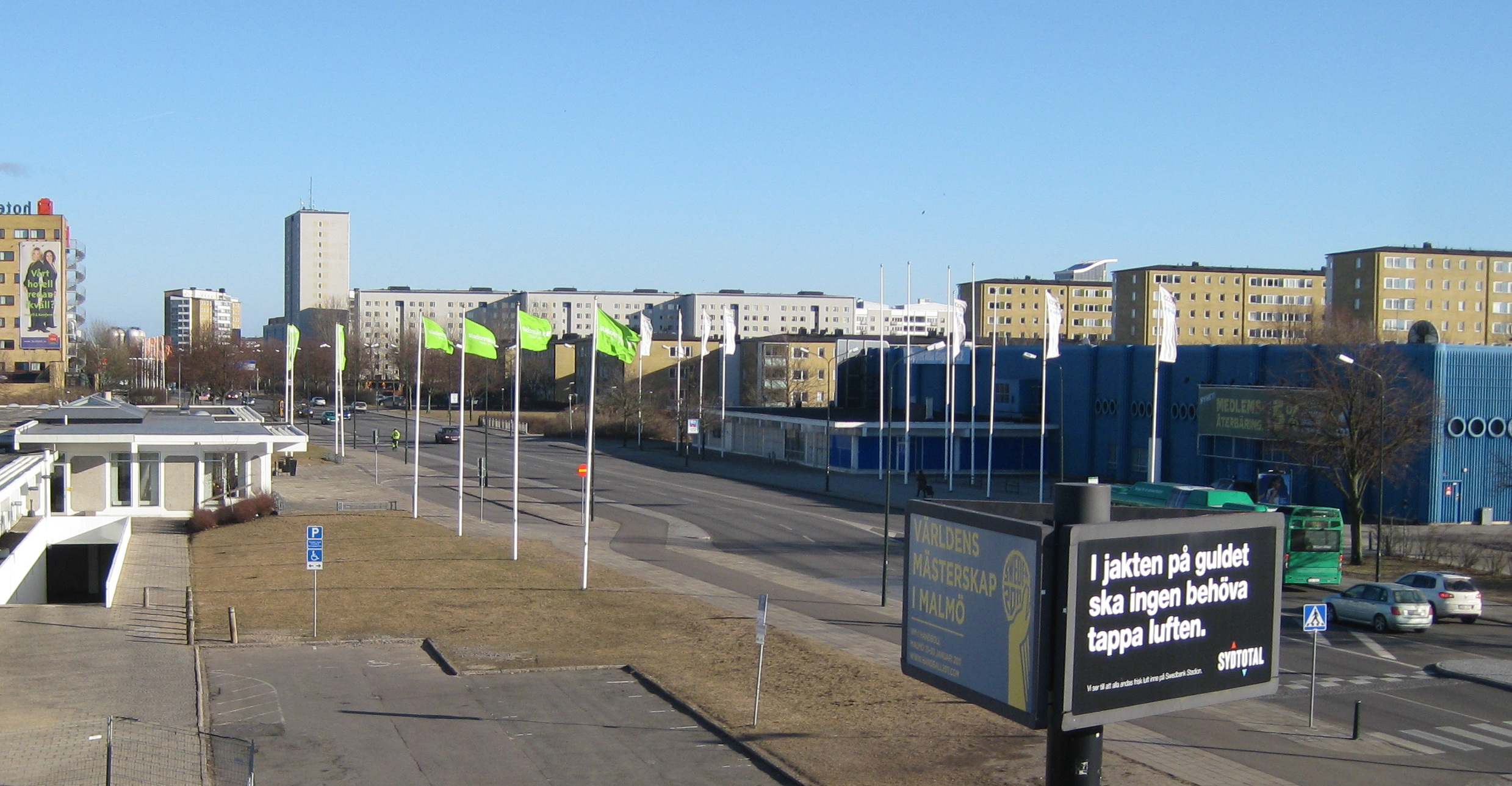 Stadiongatan, street in Malmö, Sweden